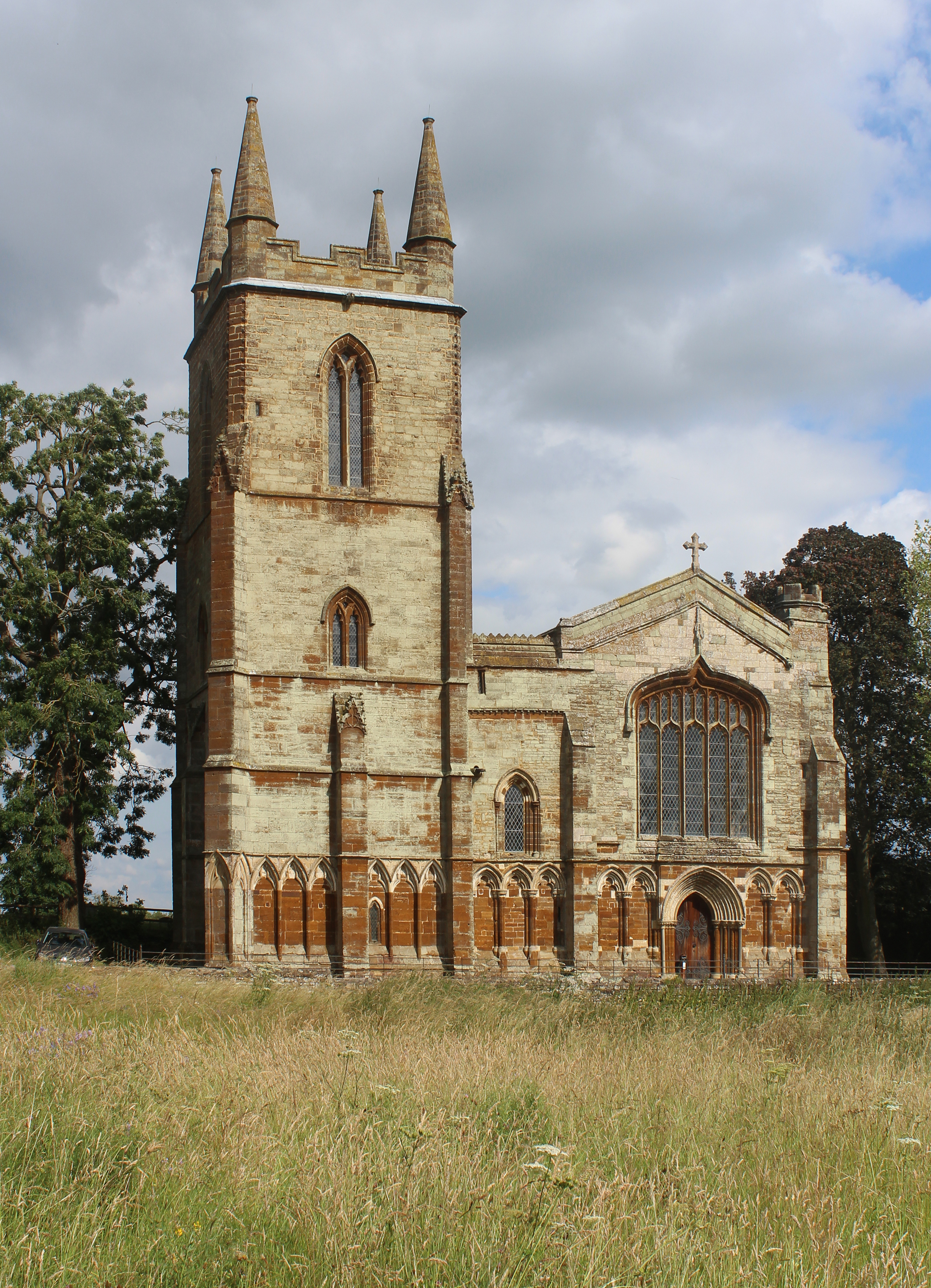 West end of the Priory Church of St Mary, Canons Ashby, a Grade I listed building, is a fragment of the west end of the nave of the Augustinian Priory that stood at this site from about 1150 until the dissolution of the monastries during the reign of Henry VIII. Prior to its dissolution in 1536, the priory was four times its current length. It was purchased by Sir John Cope in 1538 and and much of the stone used for secular buildings on the local estate. The church is now administered and maintained by the National Trust from the adjacent Canons Ashby House.